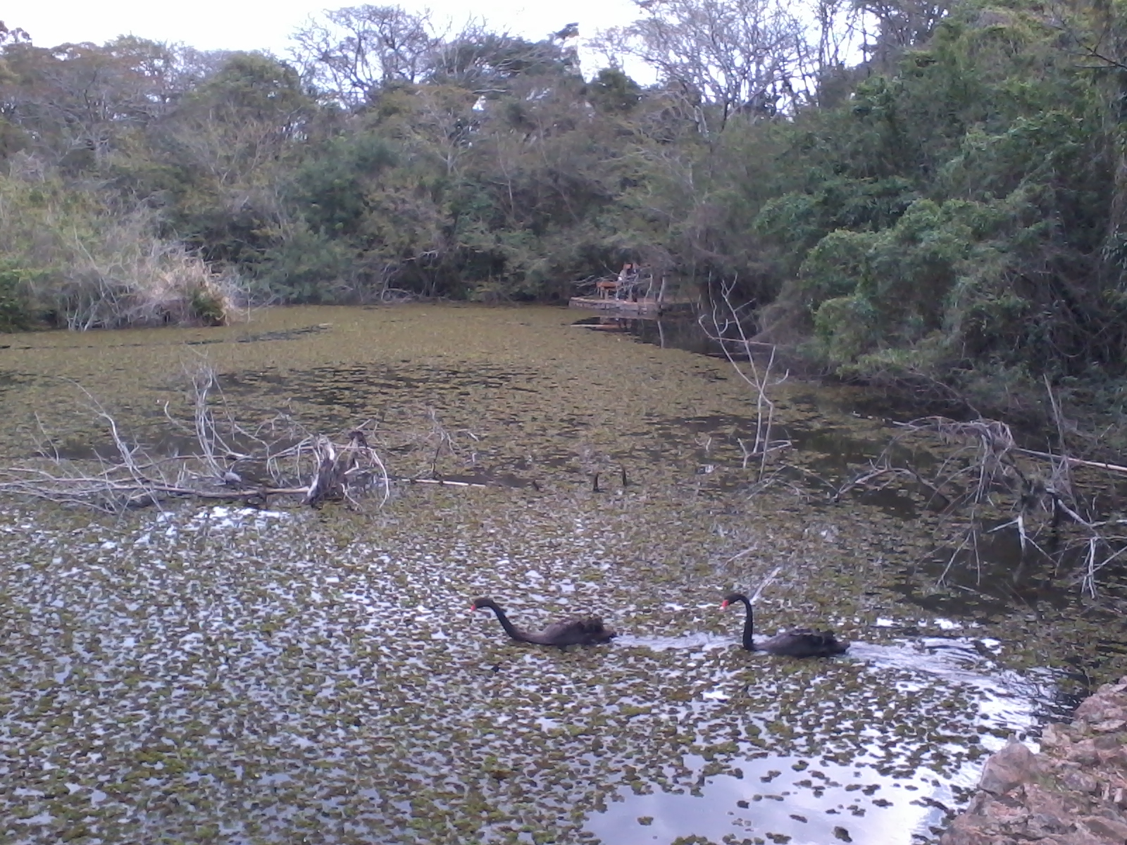 Casal de cisnes no lago do Jardim Botânico de Porto Alegre - RS